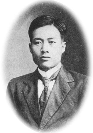 Chiang Wei-shui (February 8, 1891—August 5, 1931)